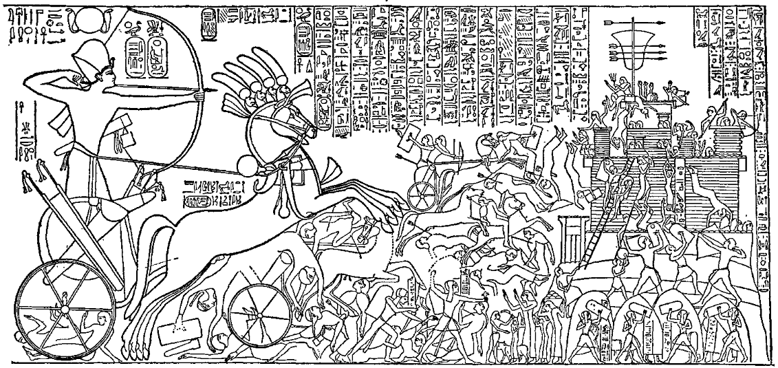 An illustration from the Encyclopaedia Biblica, a 1903 publication which is now in the public domain. Fig. 4 for article "Egypt". Image of Ramses II storming the Hittite fortress of Dapur (Da-pu-ru); from a wall picture on his temple at Thebes.